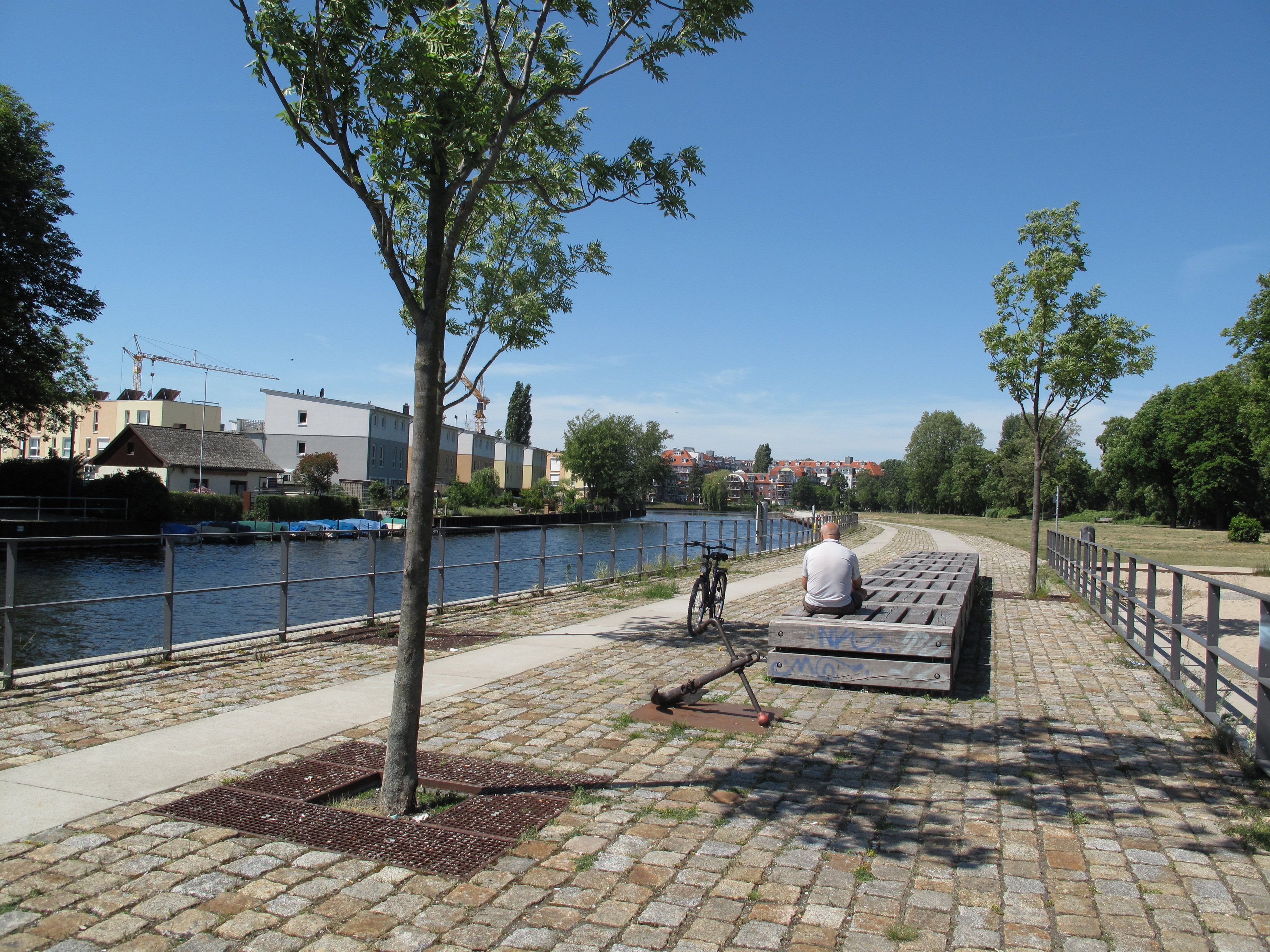 Row houses at the southern bank of the Nordhafen Spandau. The Nordhafen Spandau (north harbour Spandau) is a branch canal of the river Havel and a former inland harbour in Berlin, Borough Spandau, locality Hakenfelde.